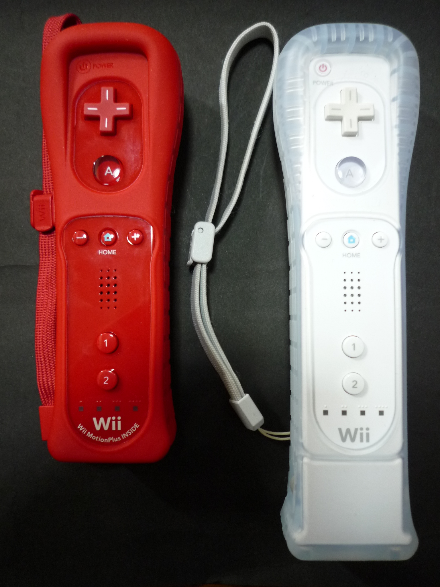 The picture is Wii Remote Plus (left) and Wii Remote with Wii Motion Plus (right). Wii Remote Plus is the game controller for Wii made by Nintendo co. It is better in point of the ability to understand the controller's motions than Wii Remote. The ability is same as the ability of Wii Remote with Wii Motion Plus.